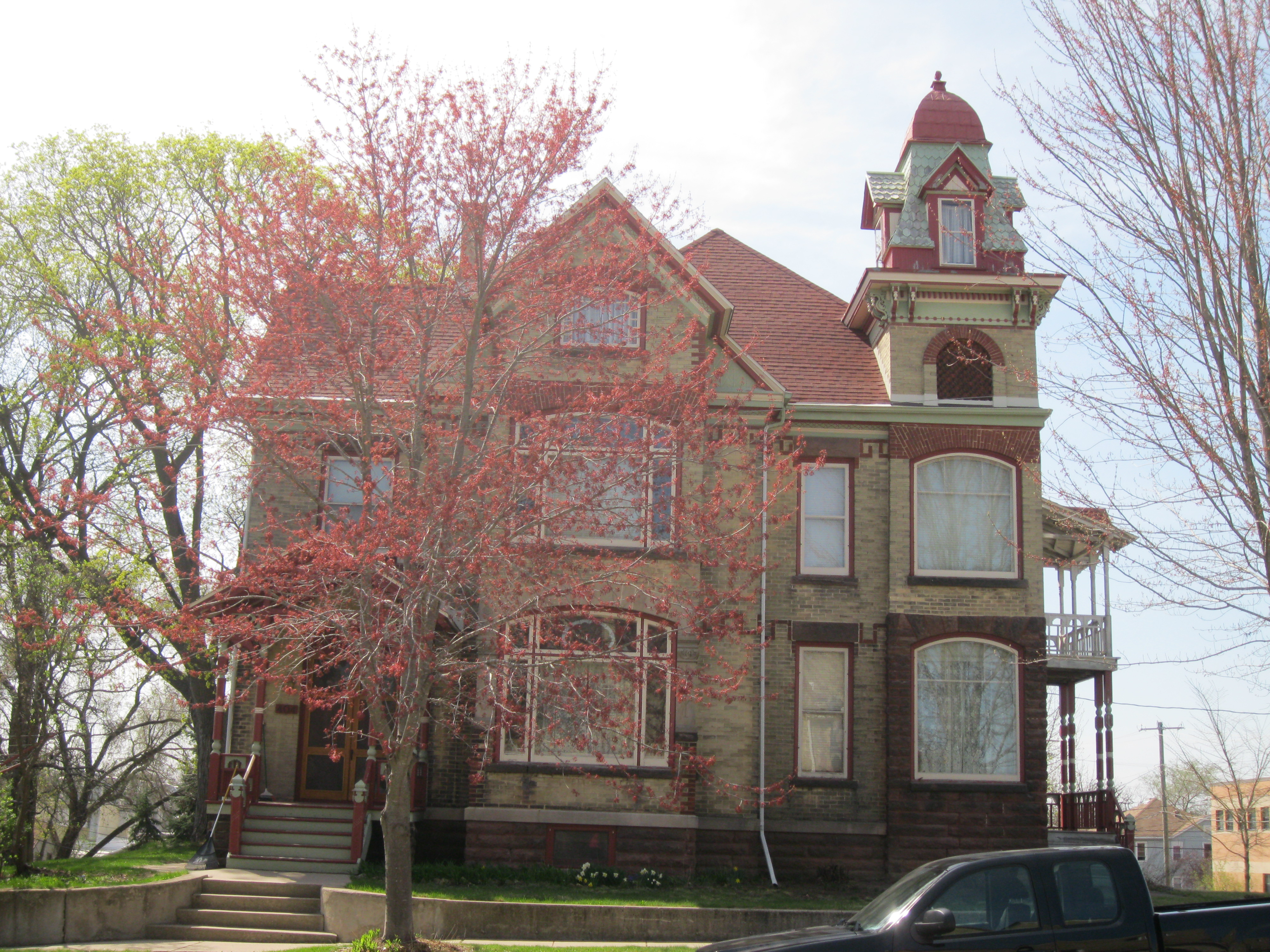 Front of the Ole K. Roe House, a historic house located at 404 South 5th Street in Stoughton, Wisconsin.